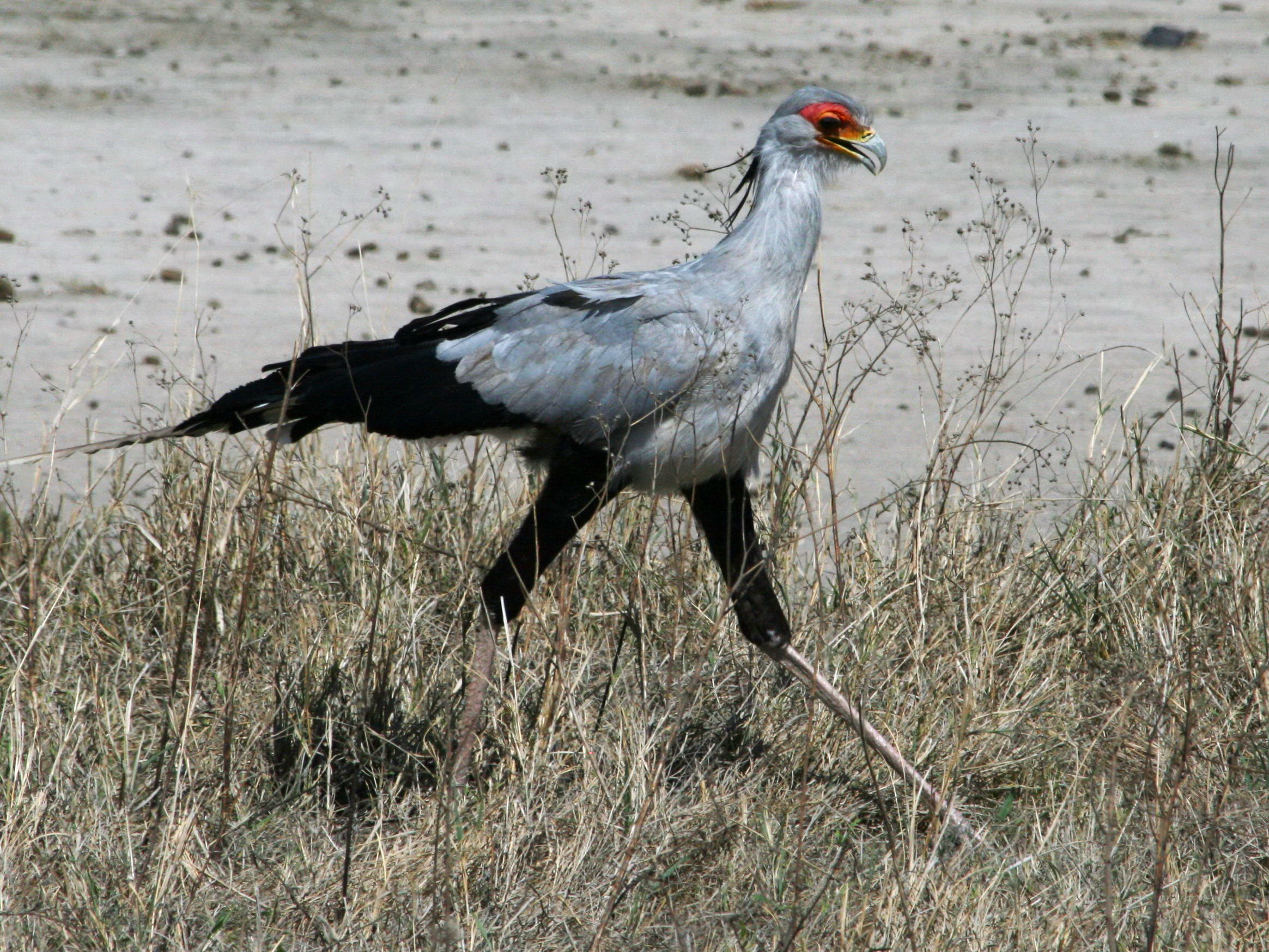 Secretary Bird (Sagittarius serpentarius) in Tanzania